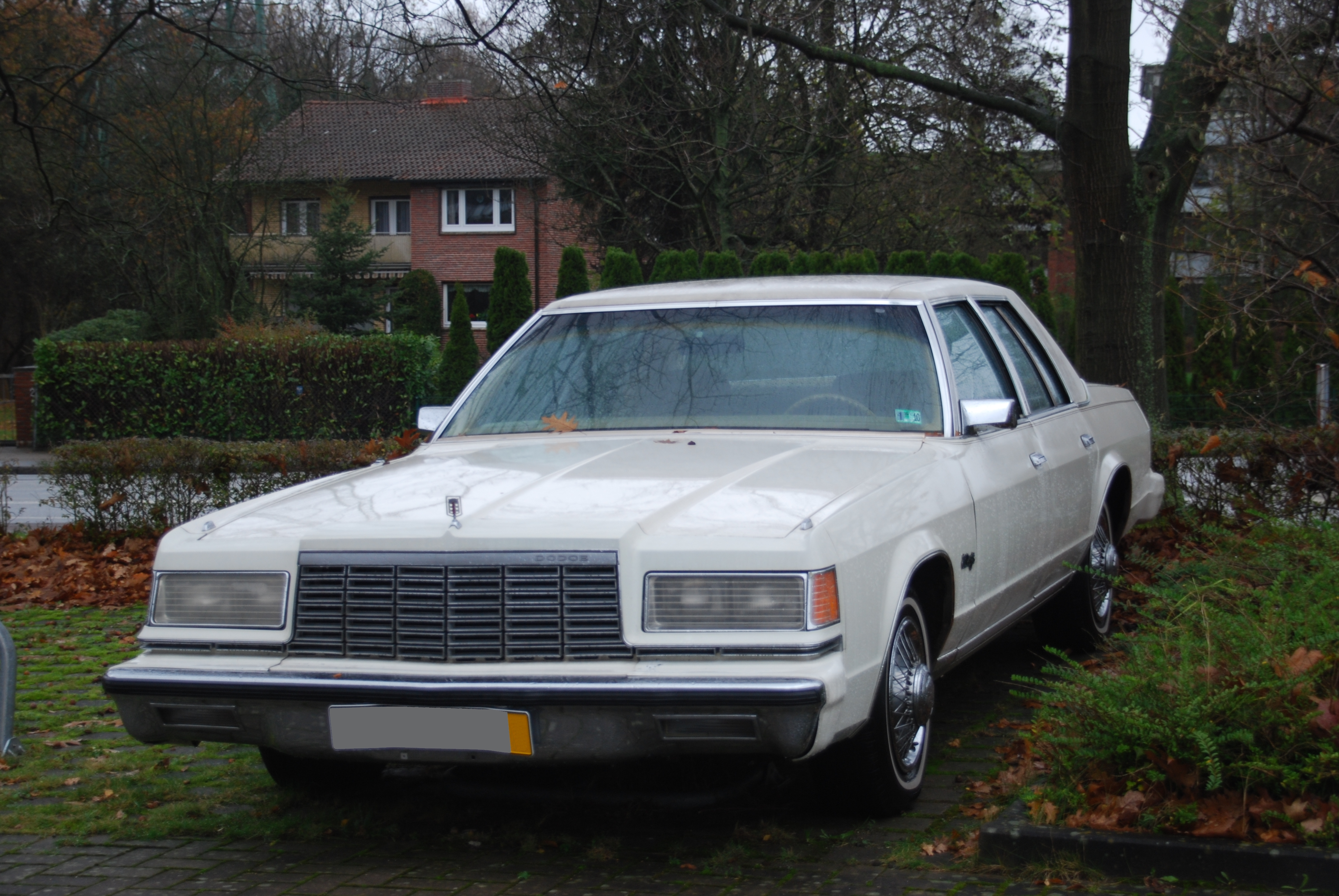 Dodge St. Regis